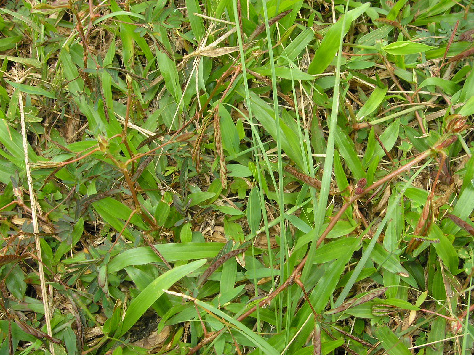 The mimosa plant, after touching it. Taken in Putrajaya, Malaysia.